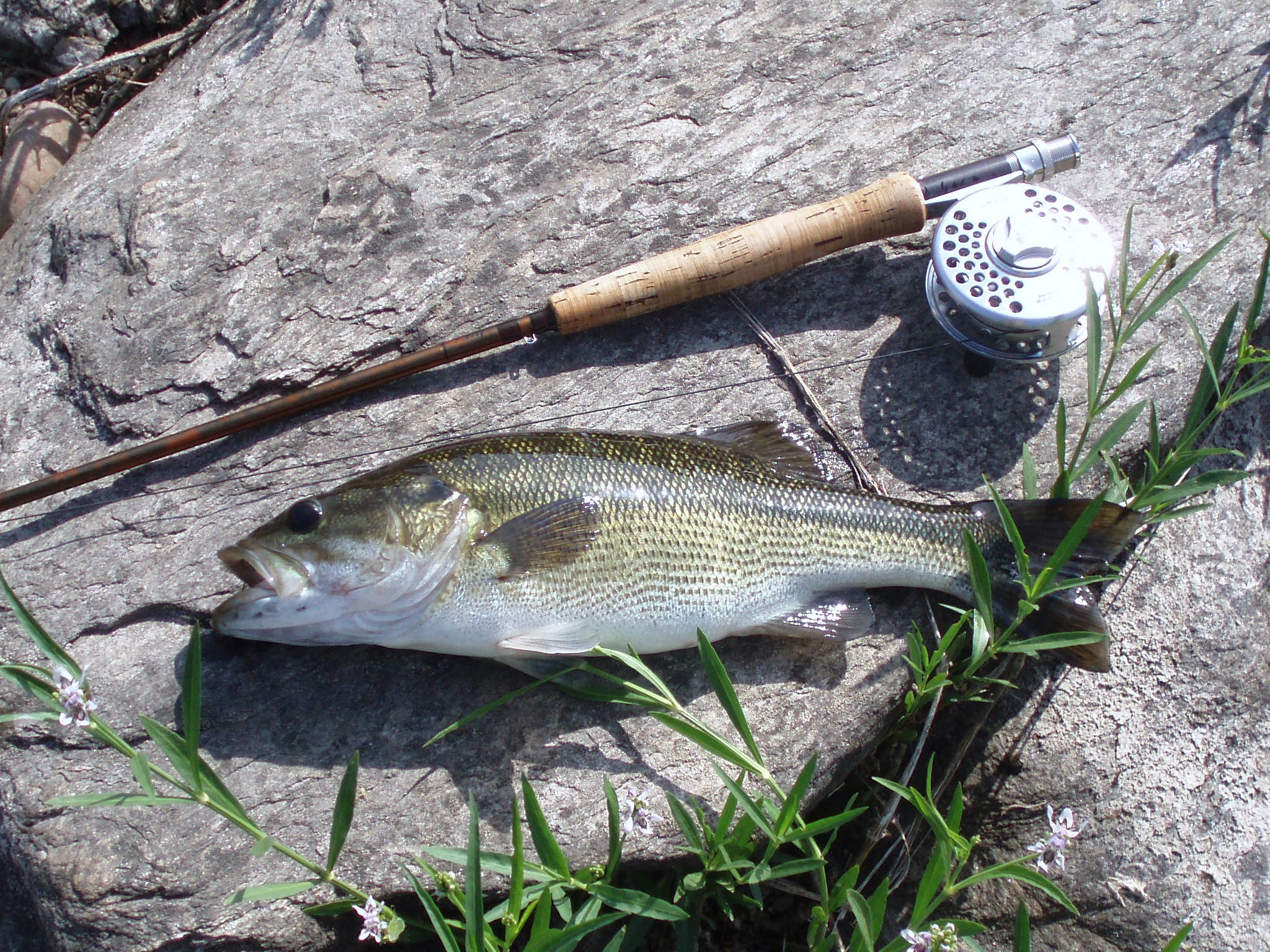 Spotted Bass From The Coosa River, Wetumpka, Alabama (Released)